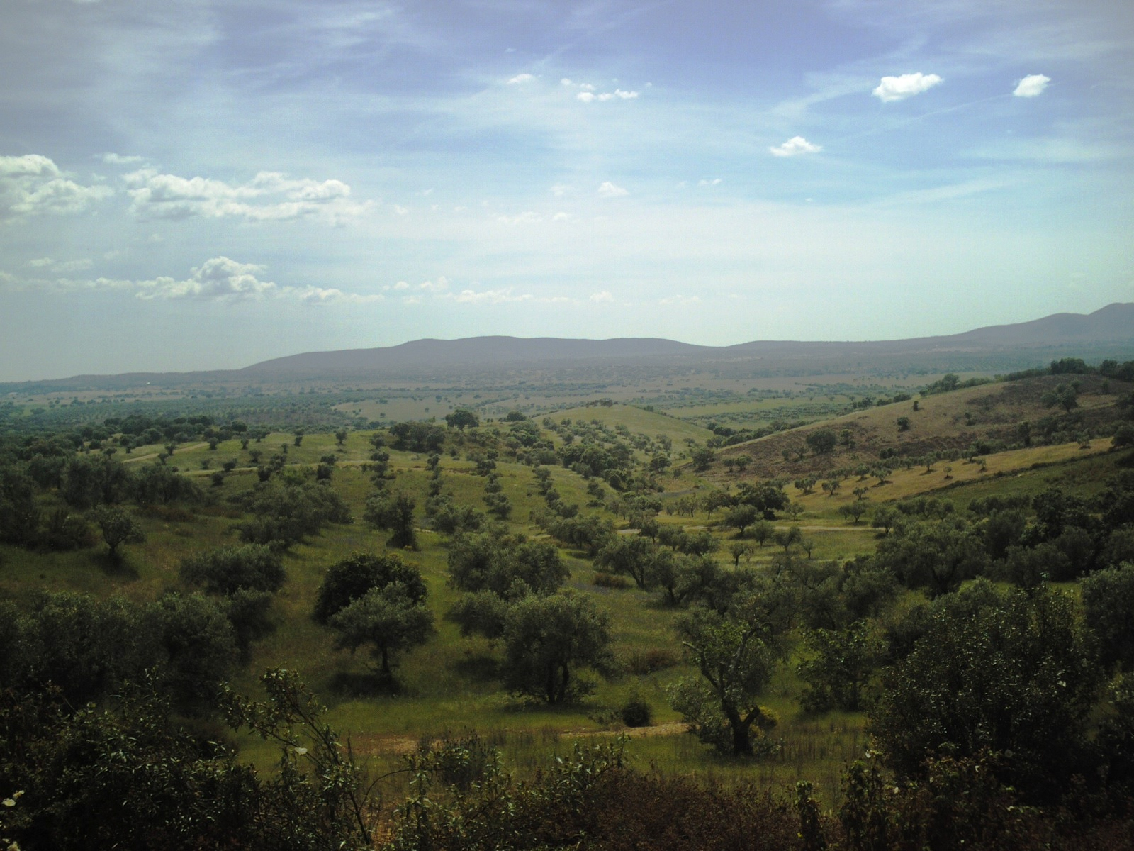 Landscapes of Alentejo montado in Portugal